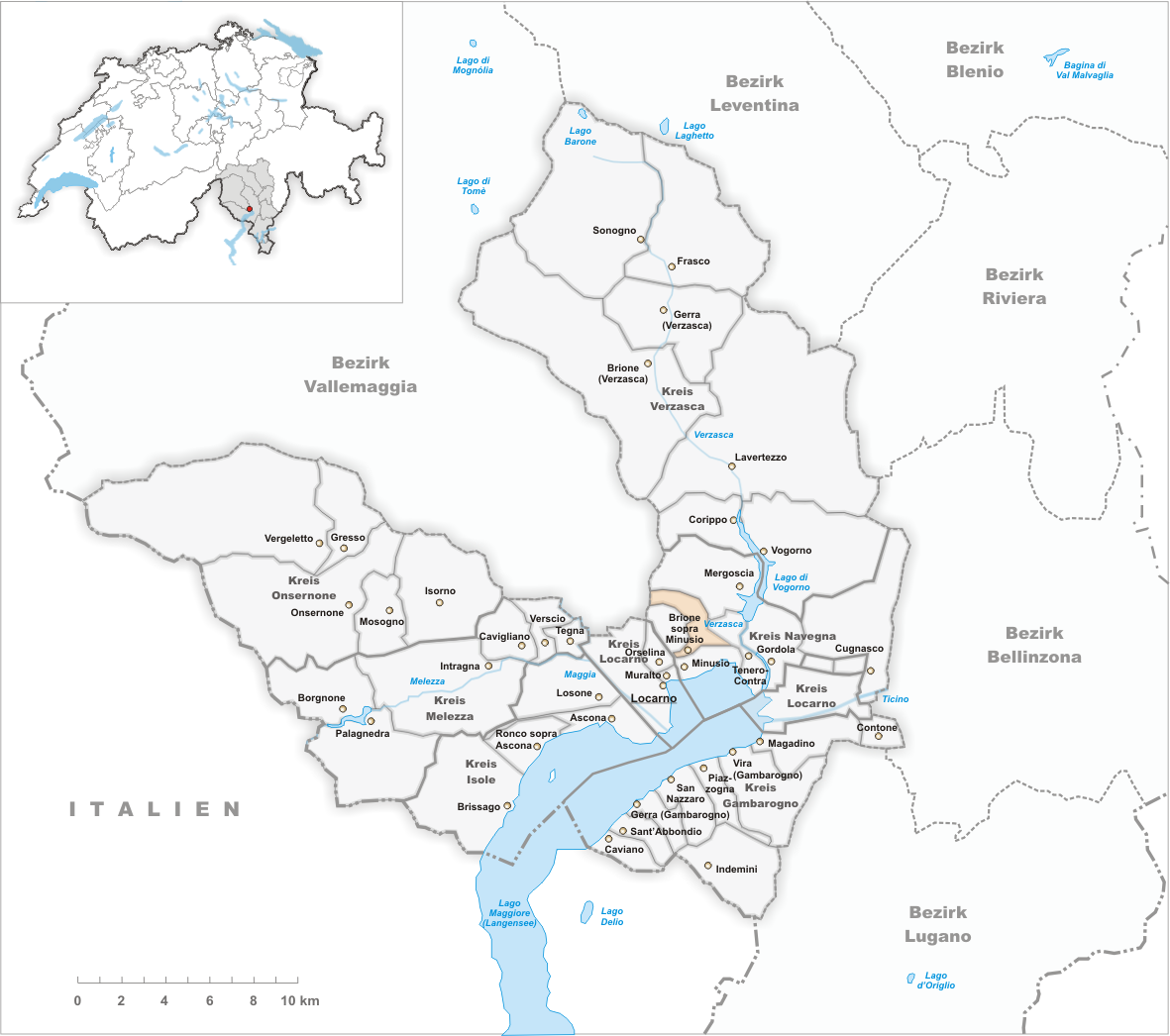 Municipality Brione sopra Minusio